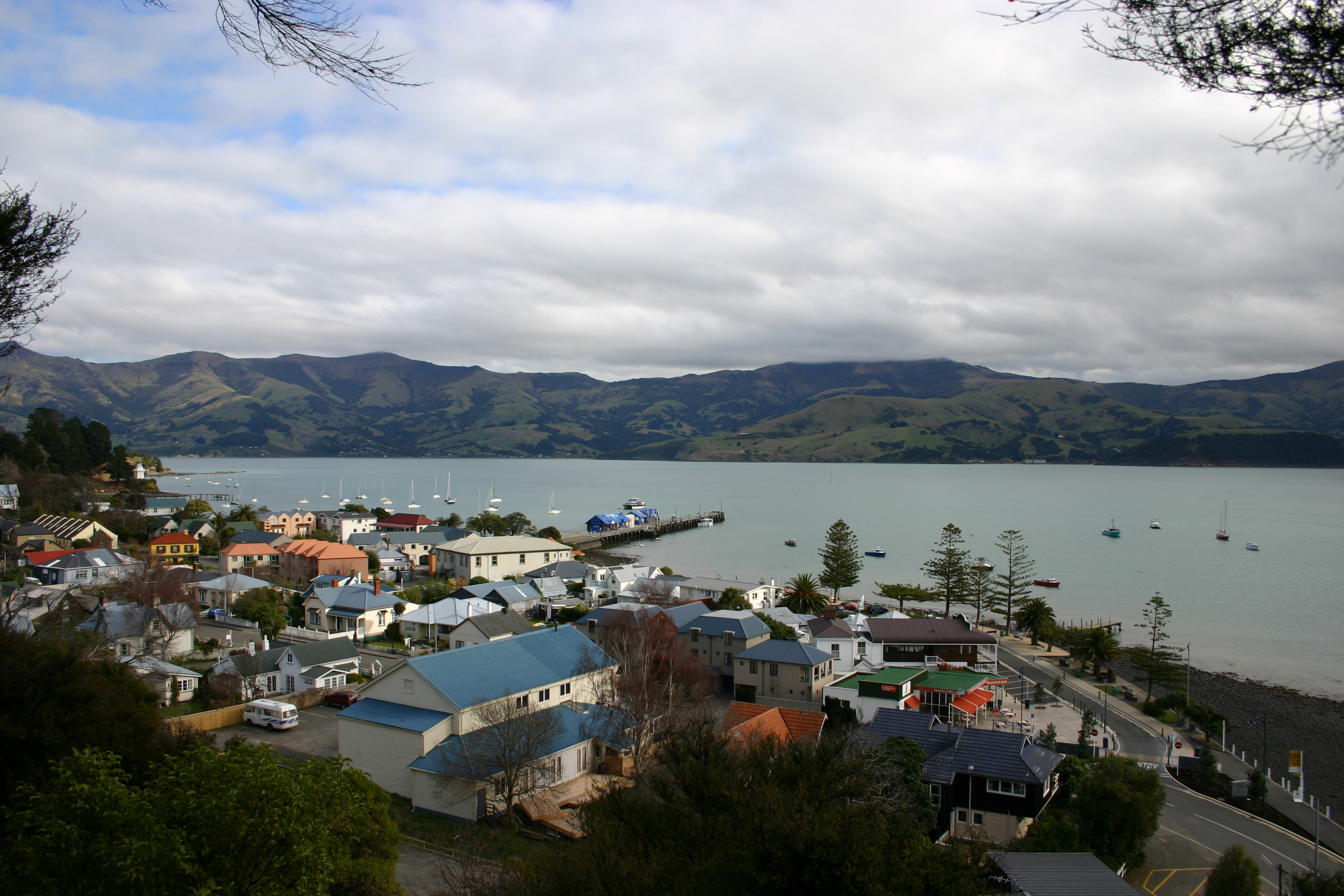 The township of Akaroa - a quaint French -influenced settlement on Banks Peninsula near Christchurch, New Zealand. A real tourist trap but still a must see addition to any South Island trip!